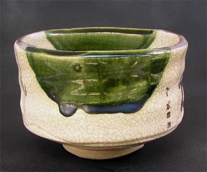 Green Oribe teabowl - chawan.